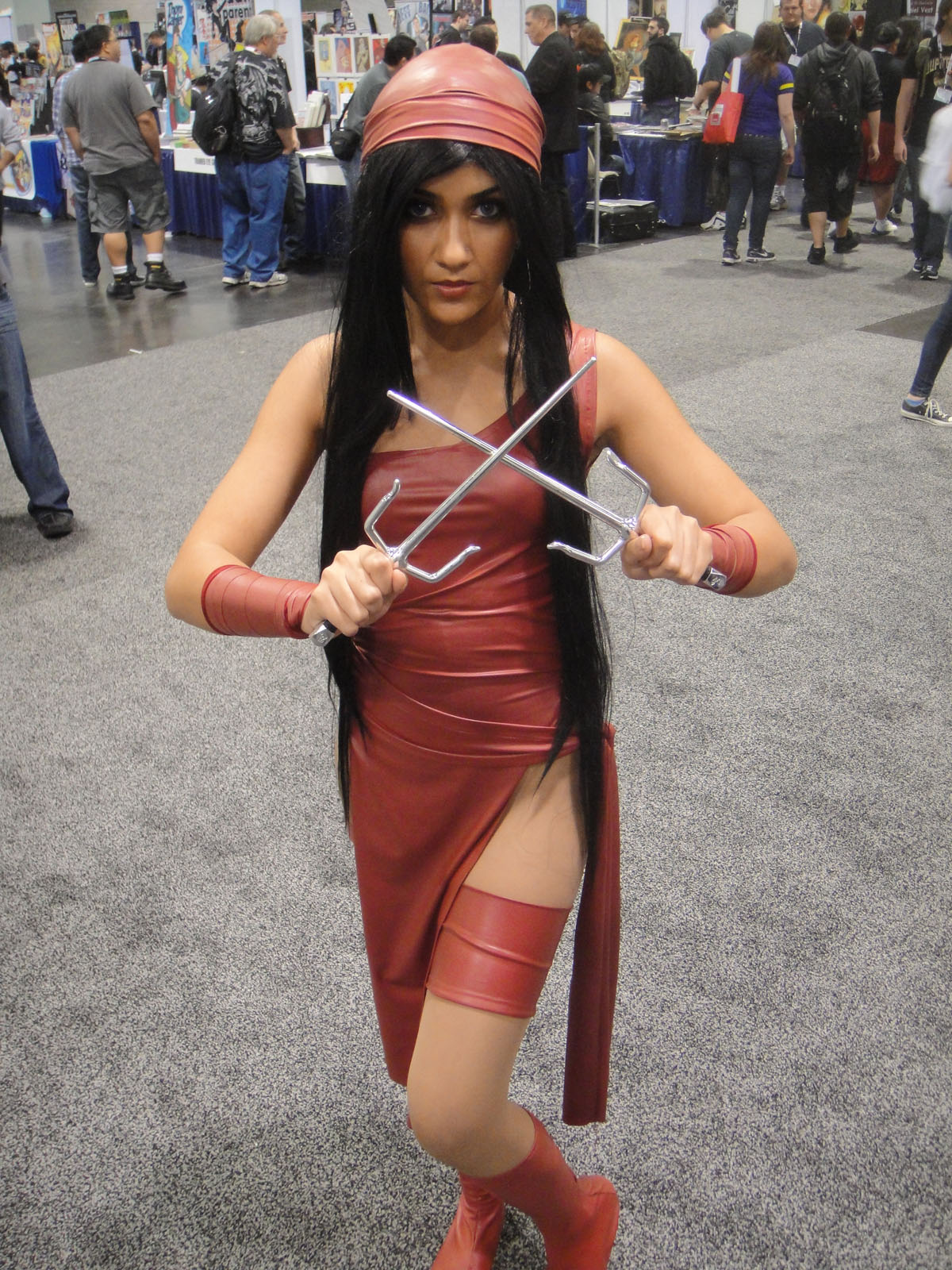 photo 2012 Pop Culture Geek taken by Doug Kline If you're interested in higher resolution versions of my images, contact me via my profile page.